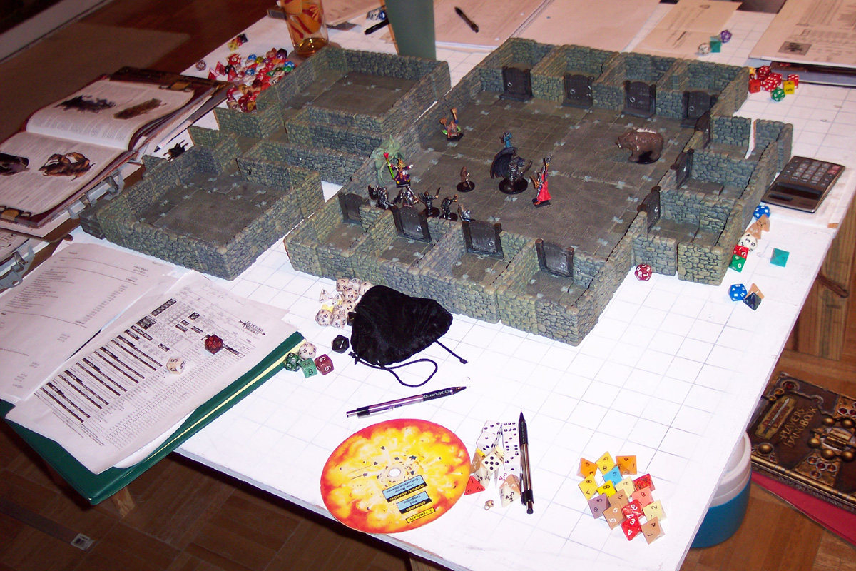 Dungeons & Dragons game in progress. Miniatures from Dungeons & Dragons Miniatures Game and others on Master Maze scenery by Dwarven Forge. Around the dungeon can be seen many multi-sided dice, a character sheet (bottom left) and a D&D manual (top right). Note that the circular template at the bottom is not from Dungeons & Dragons, but rather is from the futuristic wargame Warhammer 40,000.